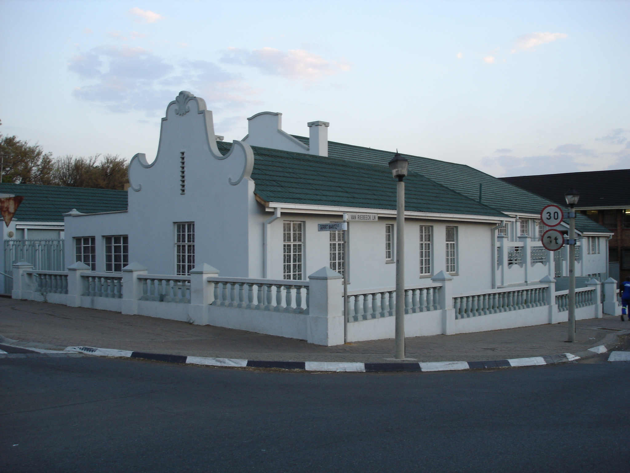 Old Alberton Town Hall situated on the corner of Van Riebeeck & Gerrit Maritz Streets in Alberton, Gauteng, South Africa